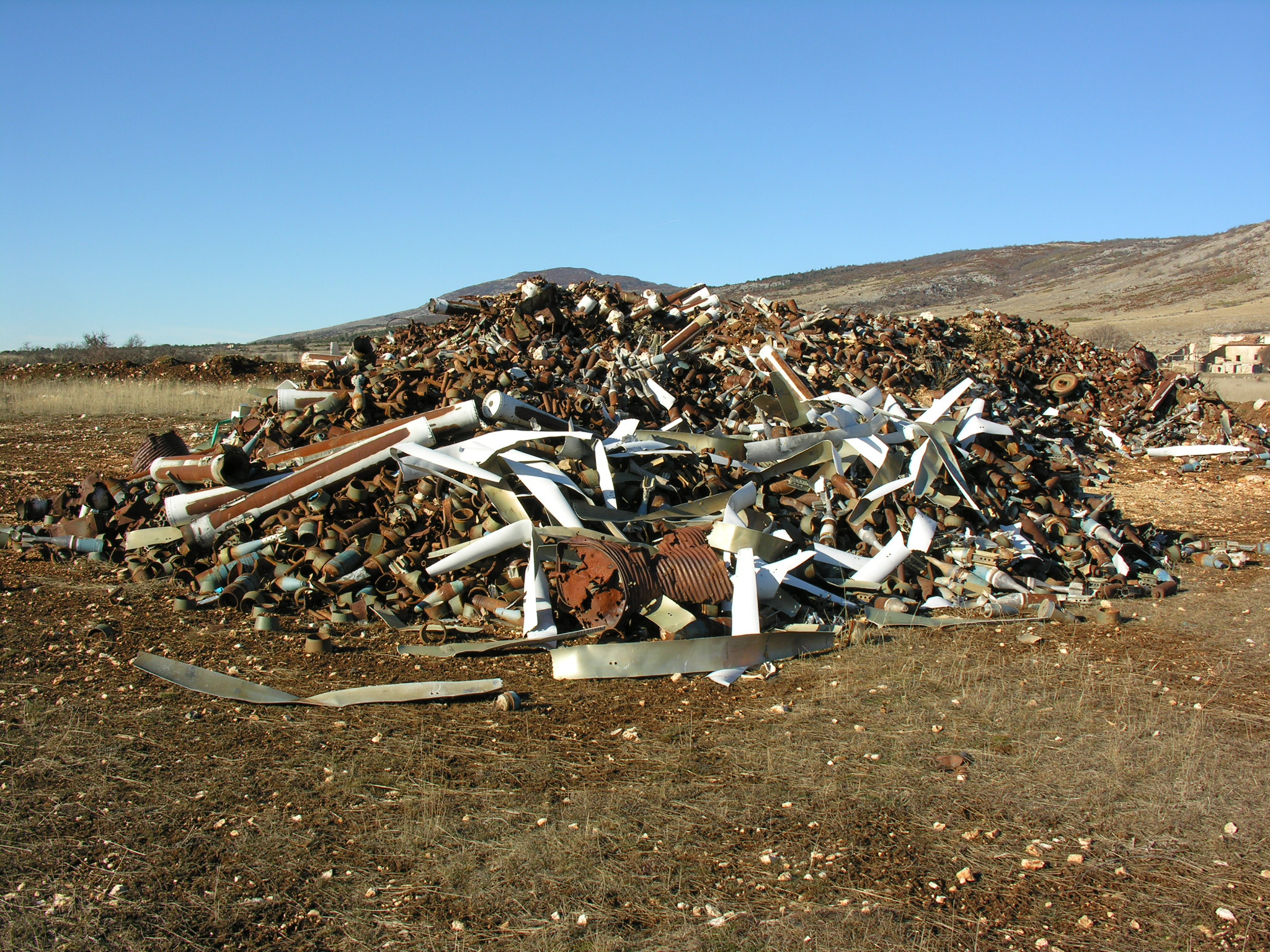 Canjuers military camp, Var, France: used ammunitions recovery.